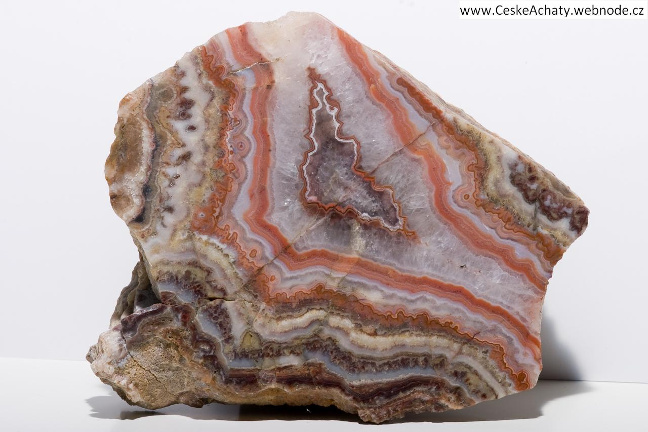 One of the best from the Cerny Potok Locality. The size is approx. 25x15x6 cm